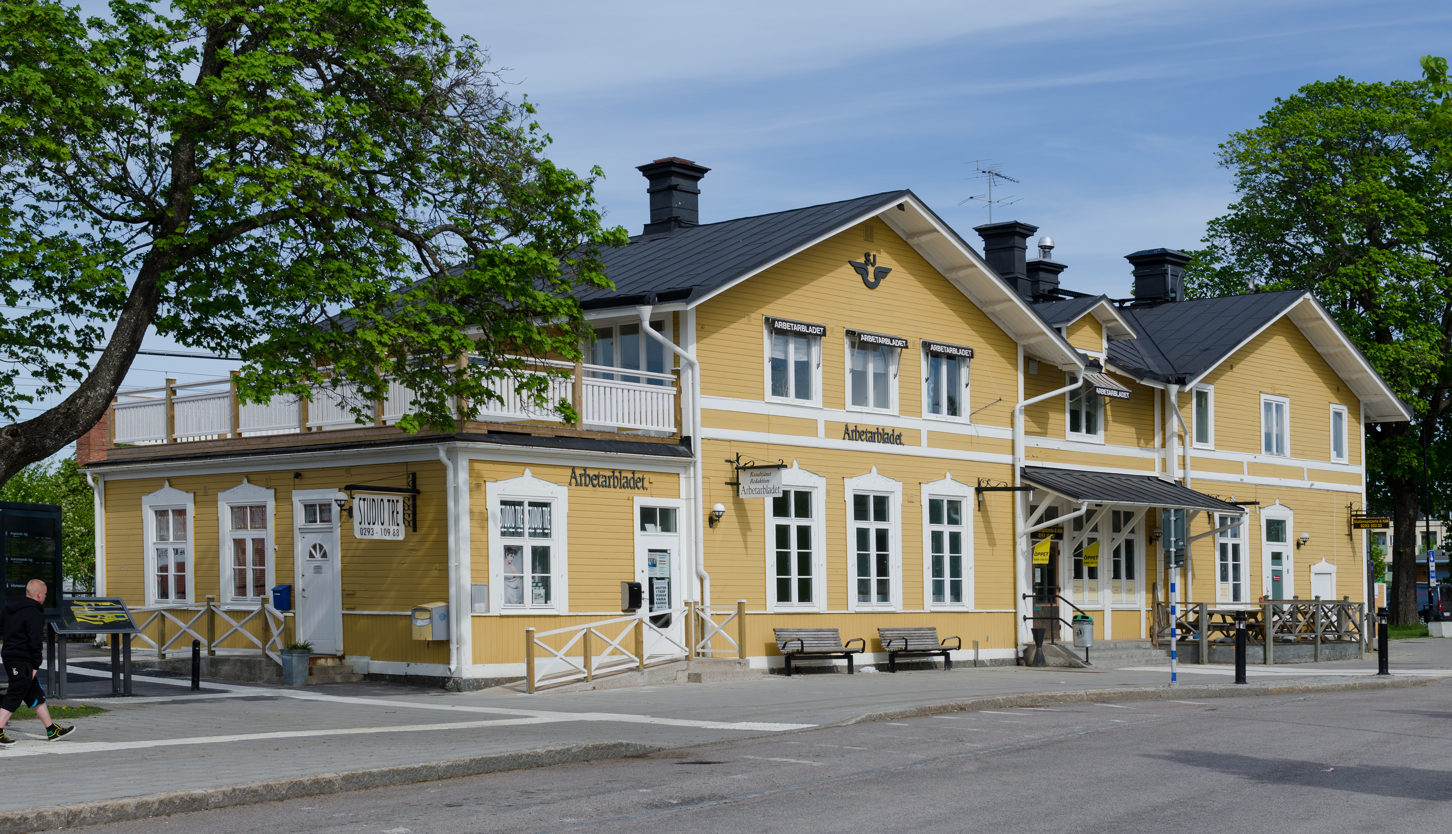 Railway station of Tierp